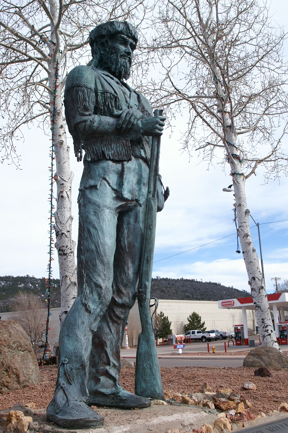 public art